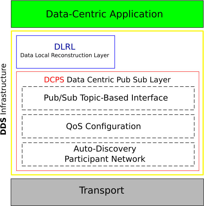 DDS Architecture, separation between the pub/sub subsystem (DCPS) and the Object Oriented reconstruction layer (DLRL)